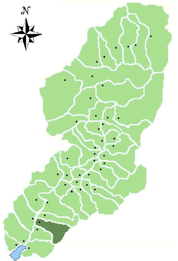 Map of the Comune di Artogne, Valle Camonica